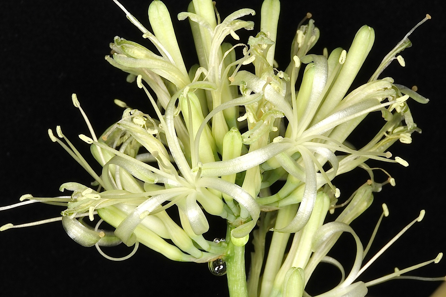 Sansevieria trifasciata Flower